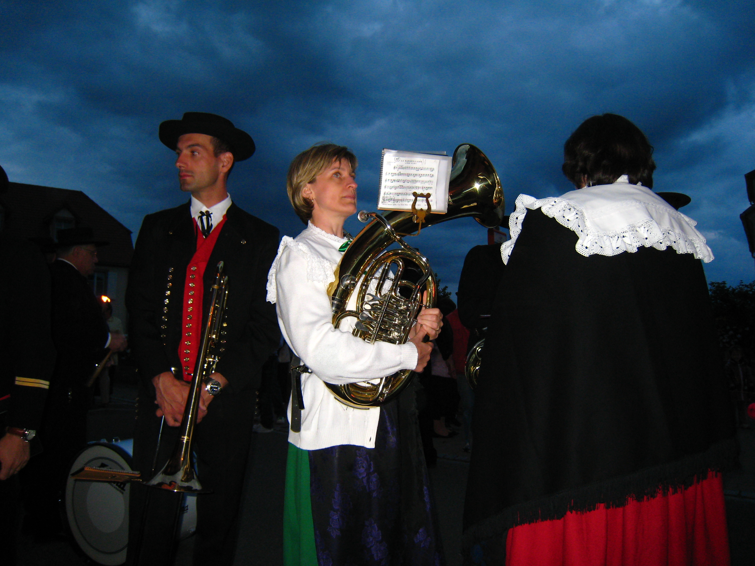 Bastille day in Ottrott, musicians about to play Marseillaise